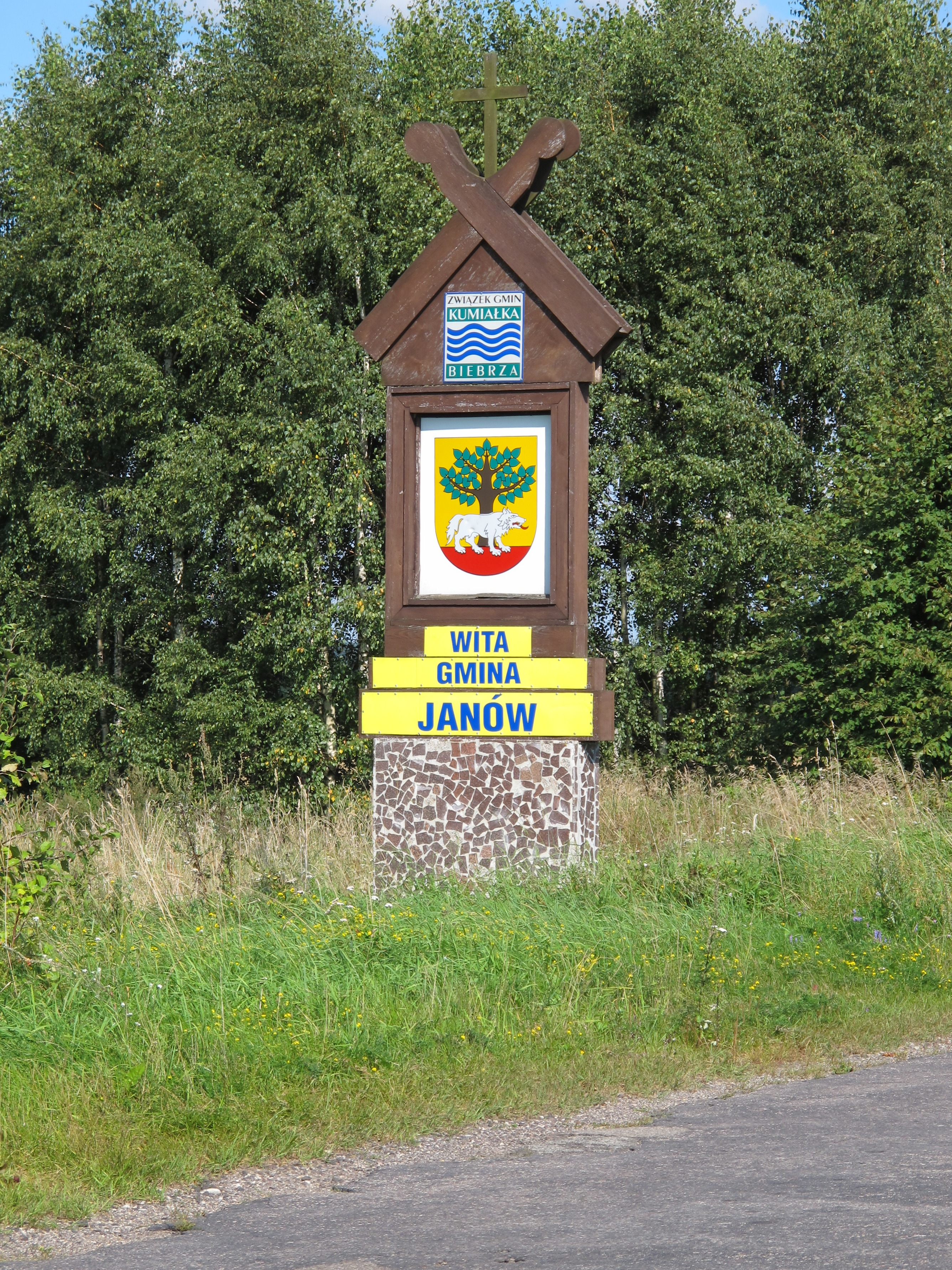 Gmina Janów welcoming sign by VR671, near Jasionowa Dolina village, gmina Janów, podlaskie, Poland